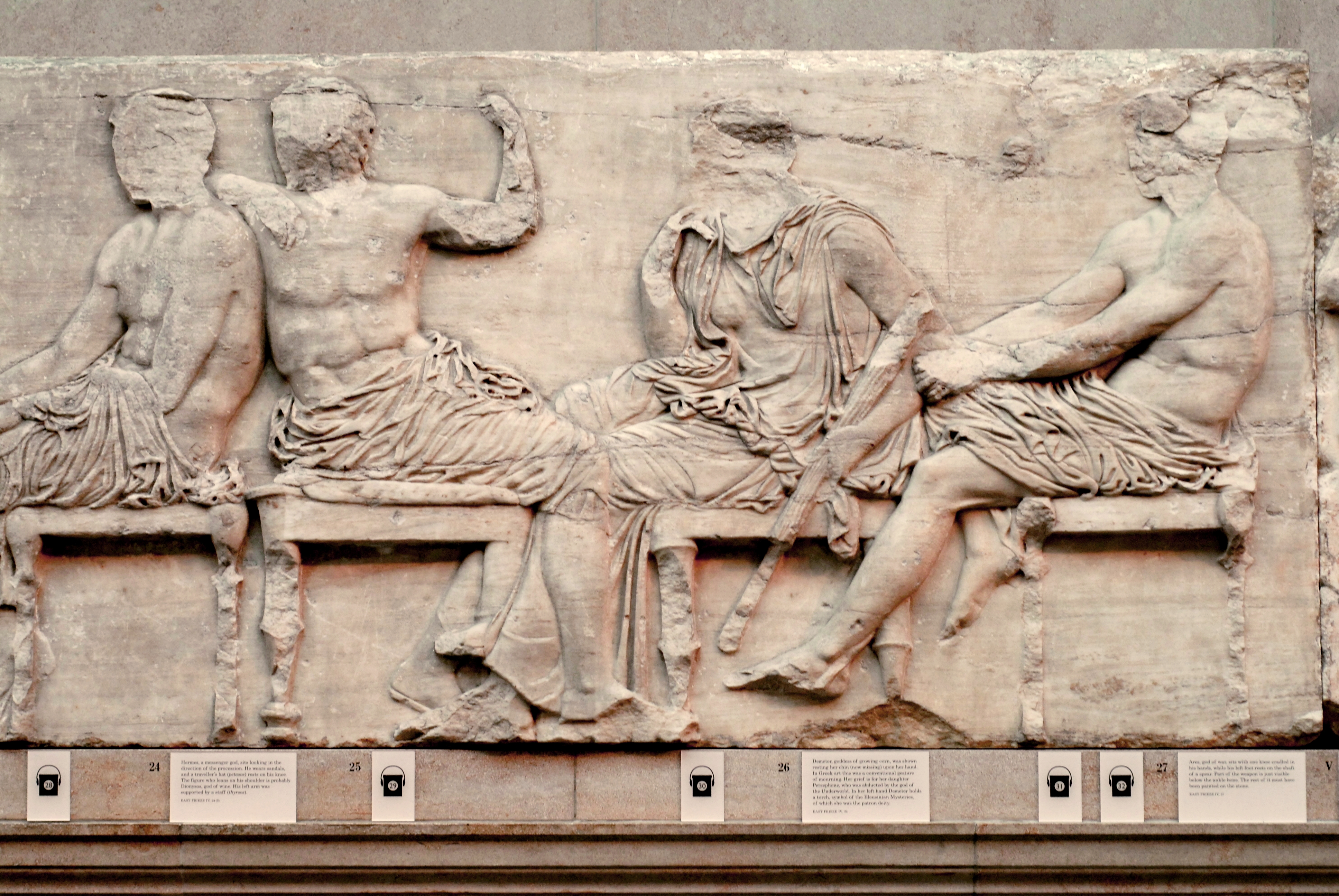 Olympians. l-r, Hermes, Dionysus(?), Demeter, Ares. . Block IV from the east frieze of the Parthenon, ca. 447–433 BC.